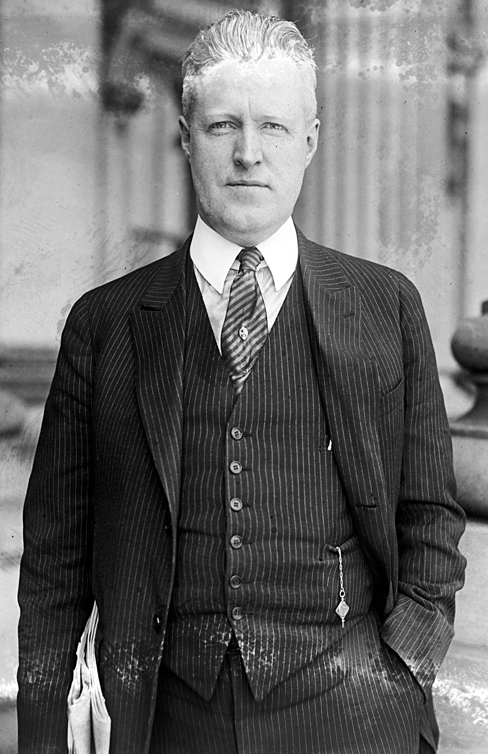 Lewis Henry, US Representative from New York